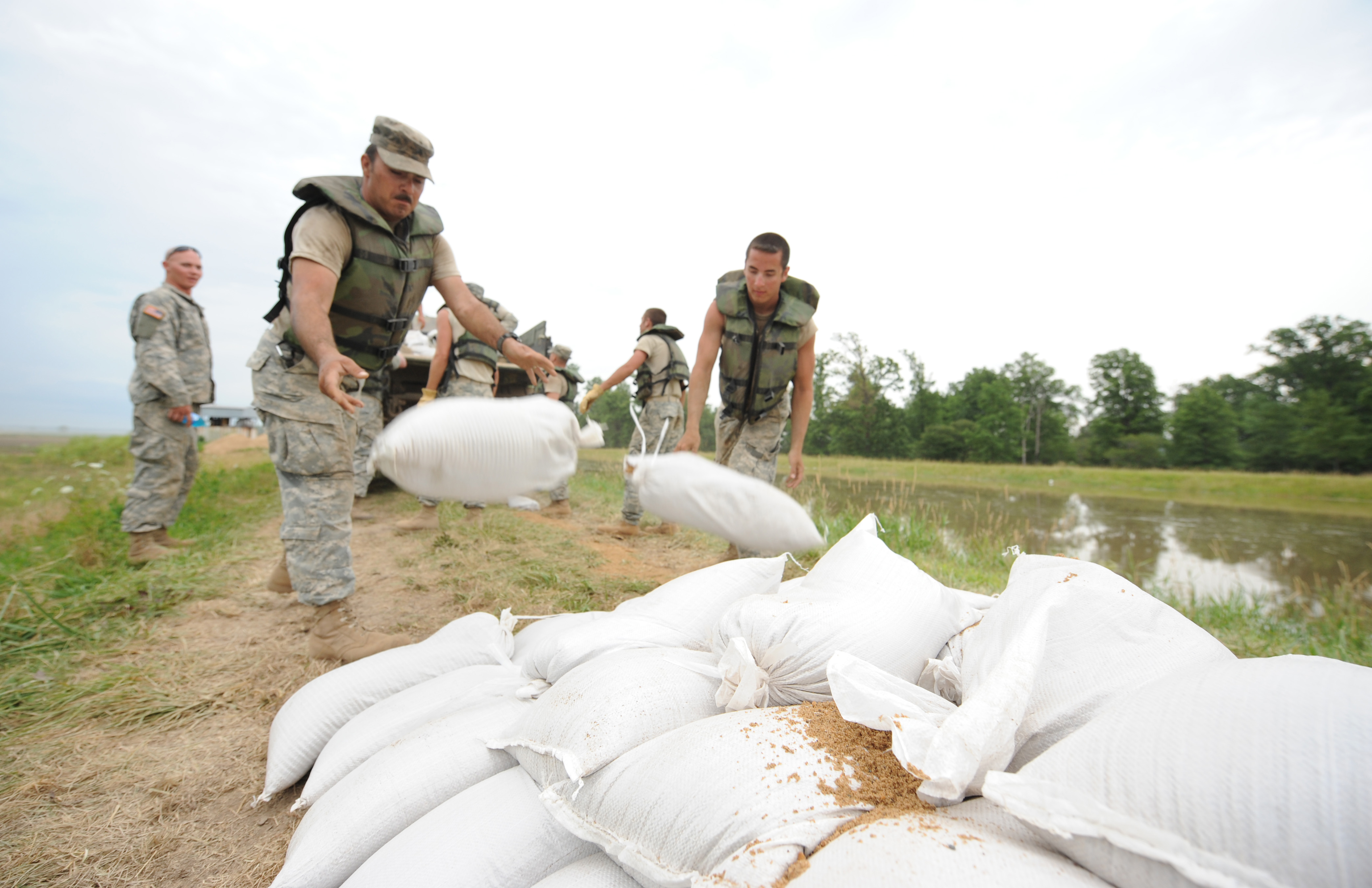 Winfield, MO, June 19, 2008 -- Members of the Missouri National Guard, Army and Air Force National Guard stack sandbags next to the levee in anticipation that the levee may breach. Jocelyn Augustino/FEMA